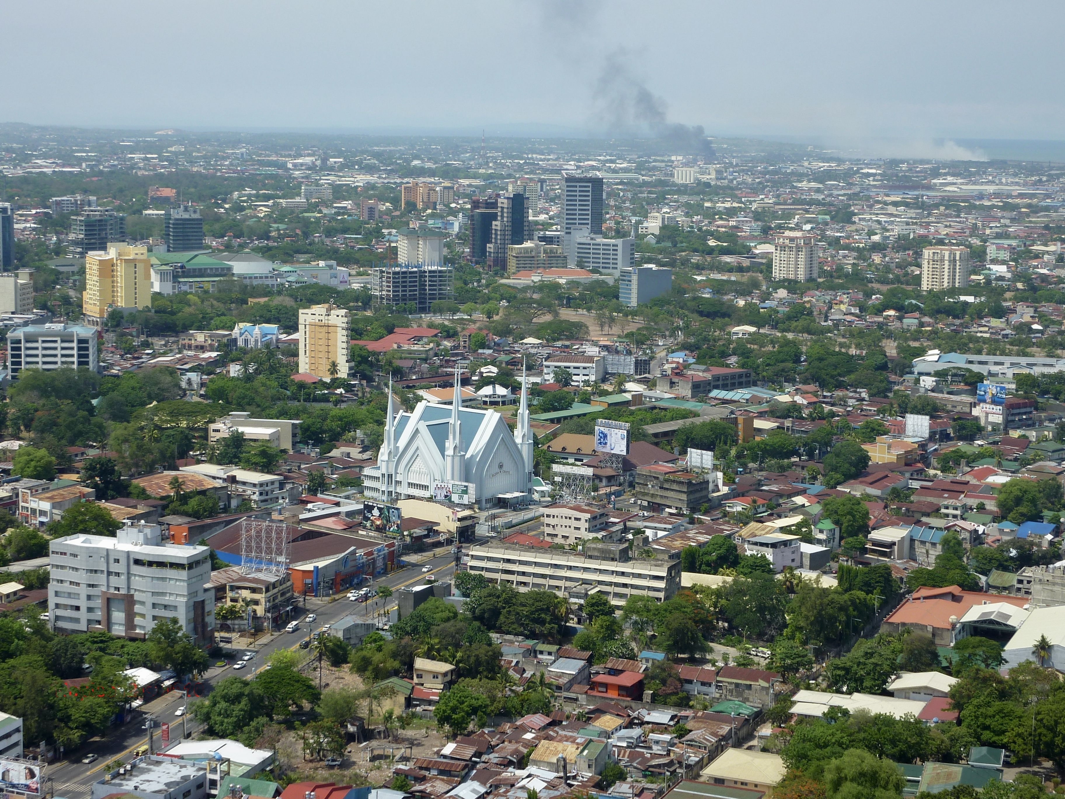 This image contains digital watermarking or credits in the image itself. The usage of visible watermarks is discouraged. If a non-watermarked version of the image is available, please upload it under the same file name and then remove this template. Ensure that removed information is present in the image description page and replace this template with metadata from image or attribution metadata from licensed image . Caution: Before removing a watermark from a copyrighted image, please read the WMF's analysis of the legal ramifications of doing so, as well as Commons' proposed policy regarding watermarks. If the old version is still useful, for example if removing the watermark damages the image significantly, upload the new version under a different title so that both can be used. After uploading the non-watermarked version, replace this template with superseded|new filename|version without watermarks . Cebu from above source owne.